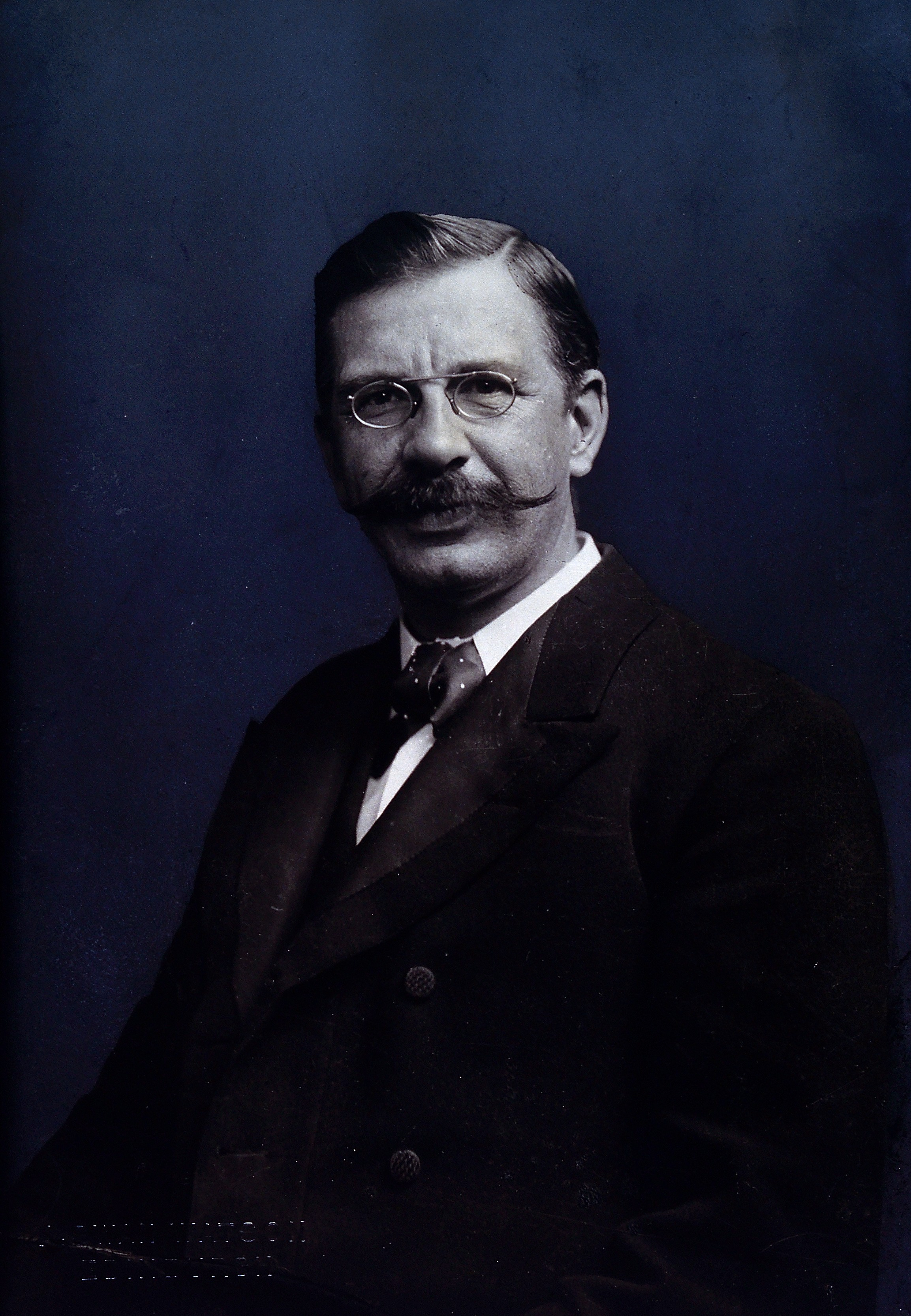 Francis Mitchell Caird. Photograph by A. Swan Watson. Iconographic Collections Keywords: portrait photographs